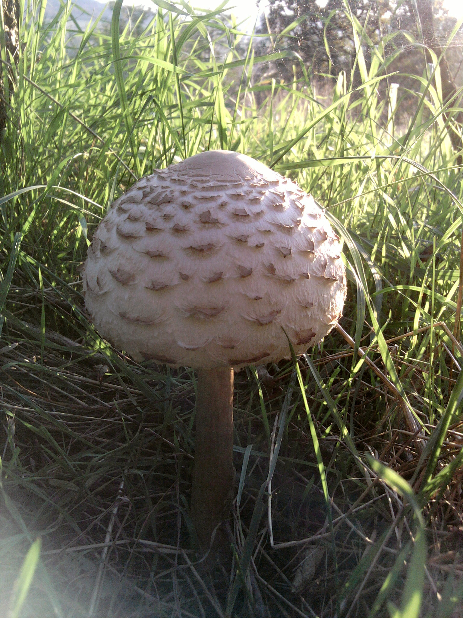 Lepiota